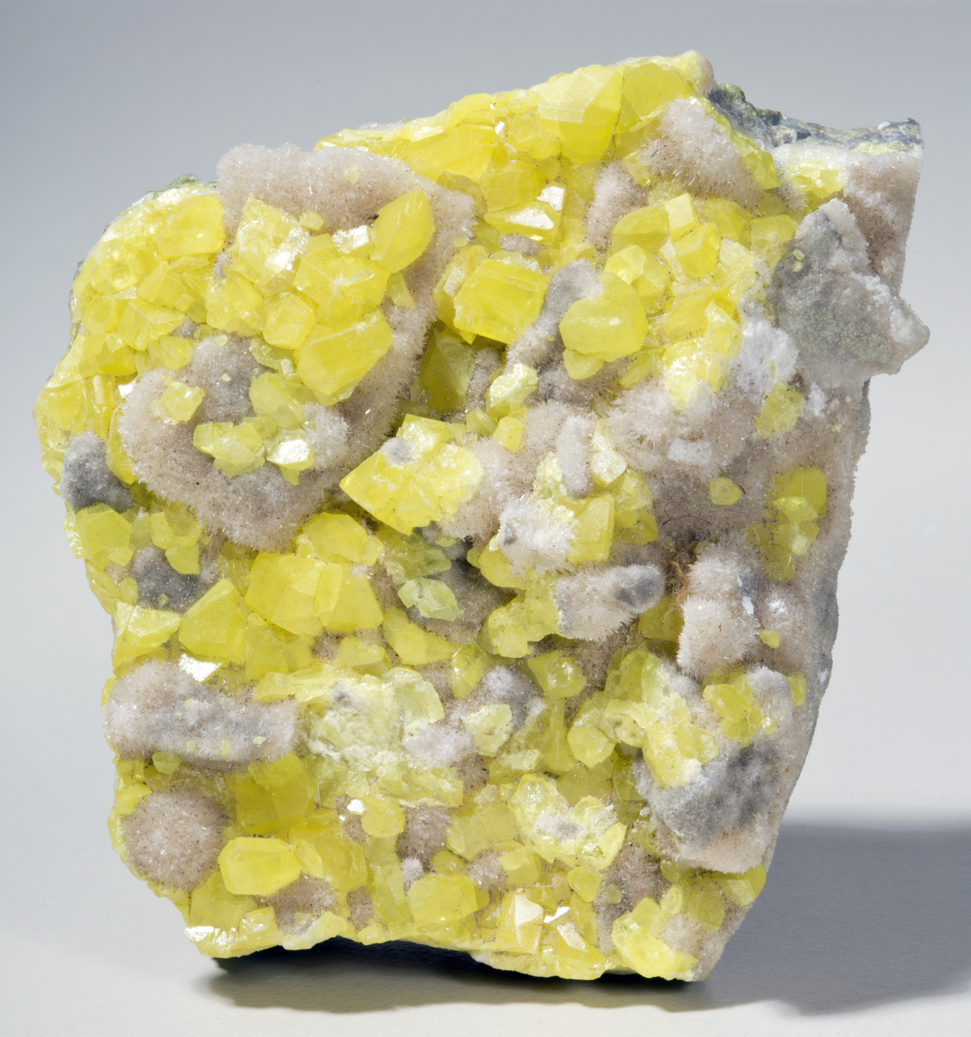 Native sulphur sample from UCL Geology Collections. Credit: UCL Geology Collections